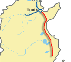 Autoroute A1 map, Tunisia